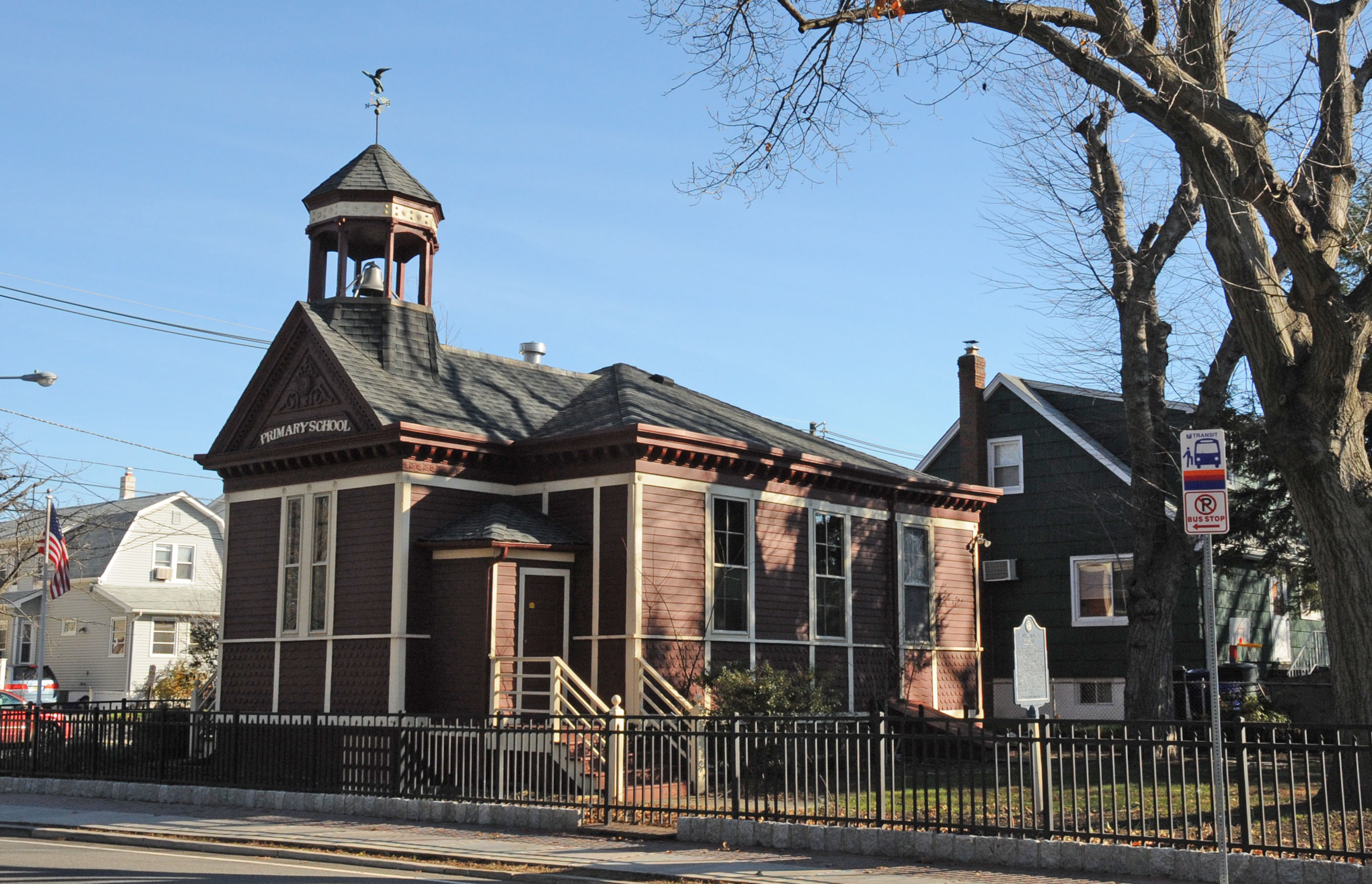 Built in 1893 on the site of two previous schools on land donated by Jacob van Winkle. It is a one-room school with a Queen Anne-style cupola. It continued to function until 1978.